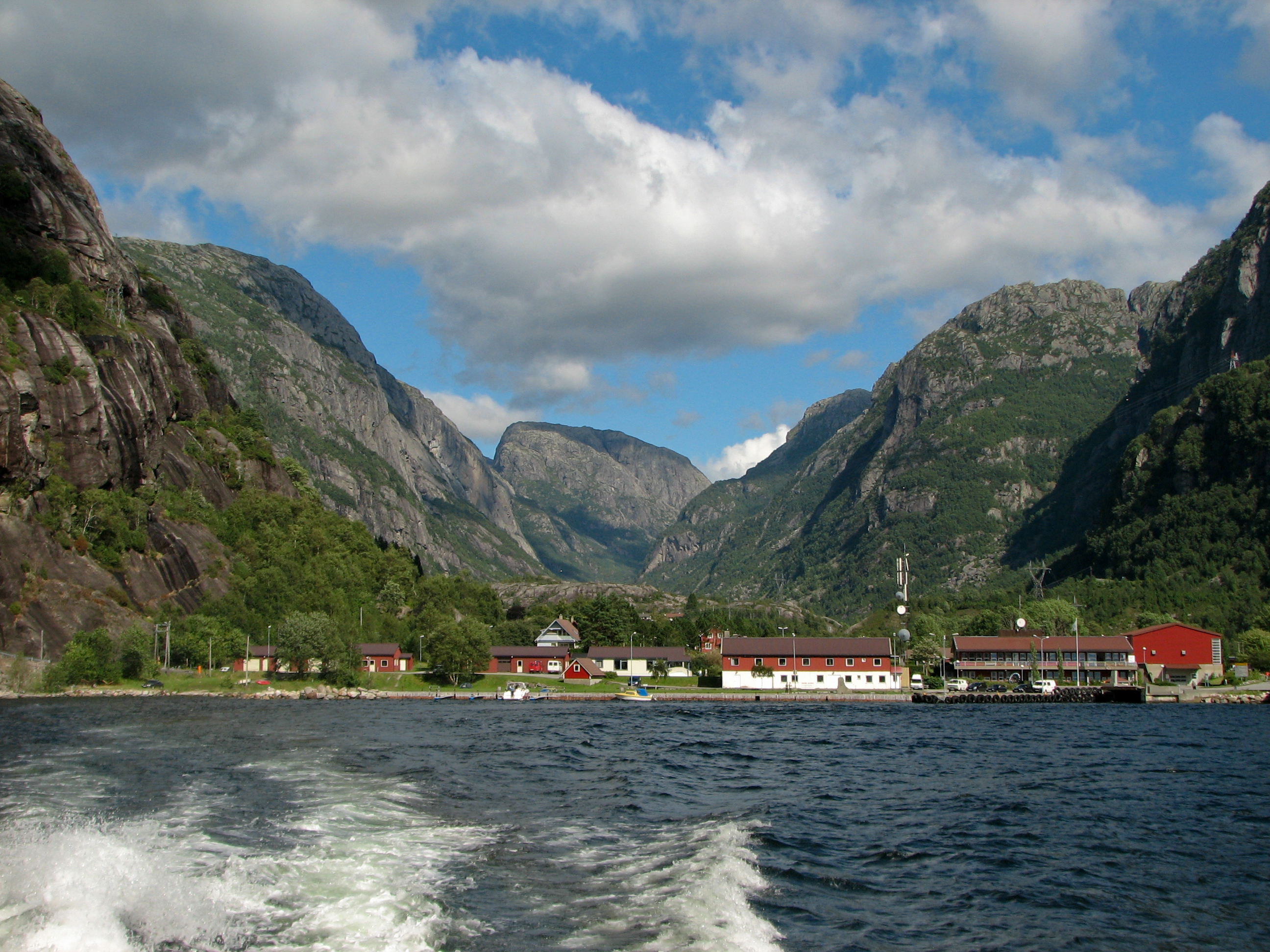 Lysebotn - marina